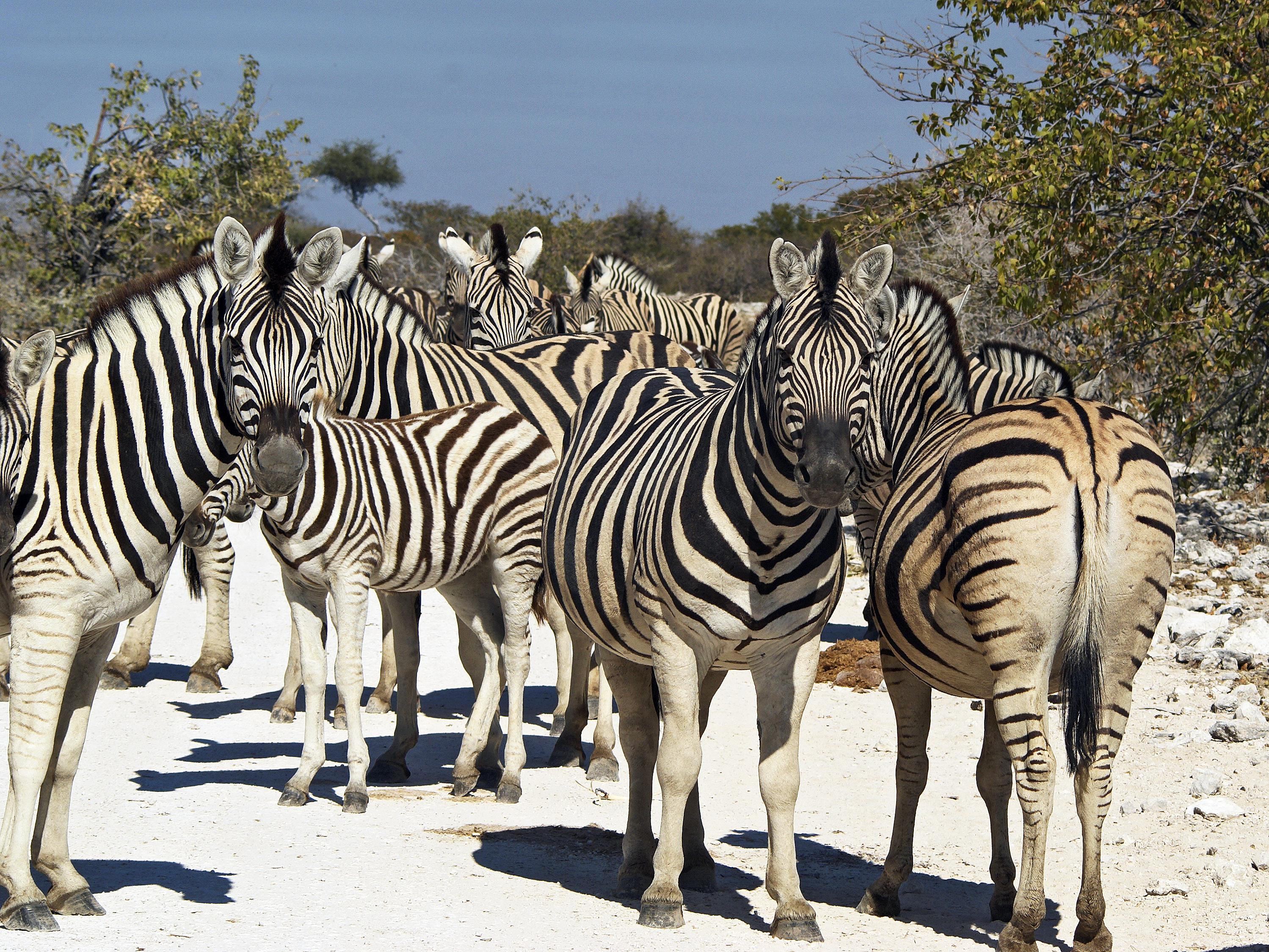 Group of Damara Zebras close to Kalkheuwel waterhole, Etosha, Namibia.